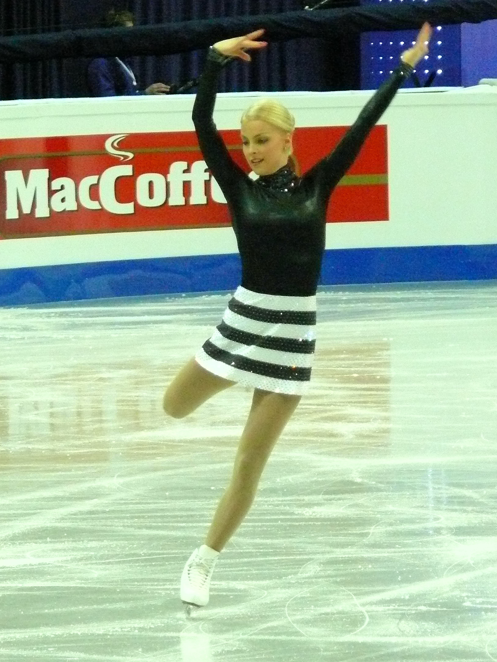 Kiira Korpi (FIN) at her short program at the World Championships in Figure Skating 2008 in Göteborg (SWE)